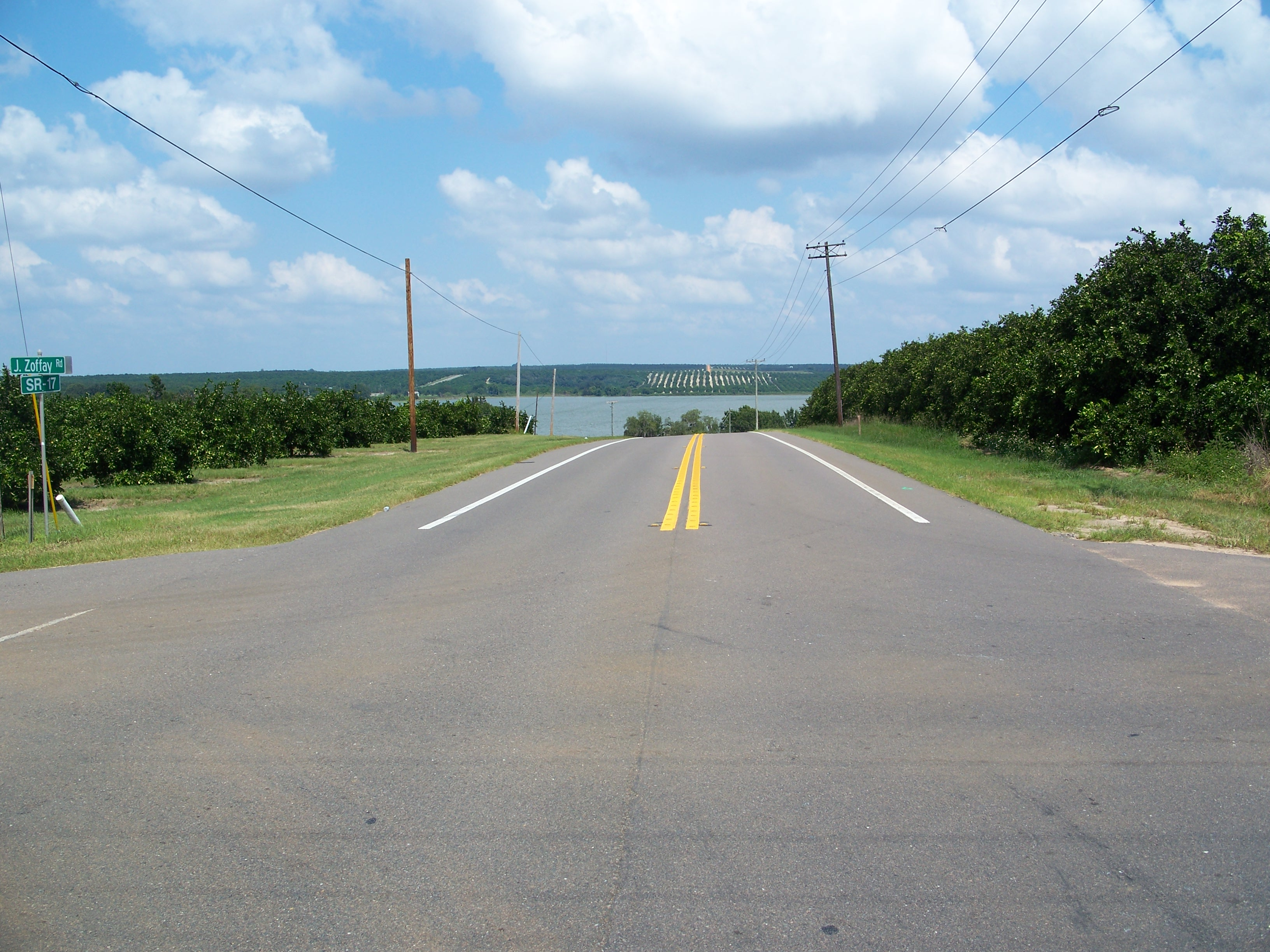 Frostproof, Florida: SR 17, looking north towards Lake Moody